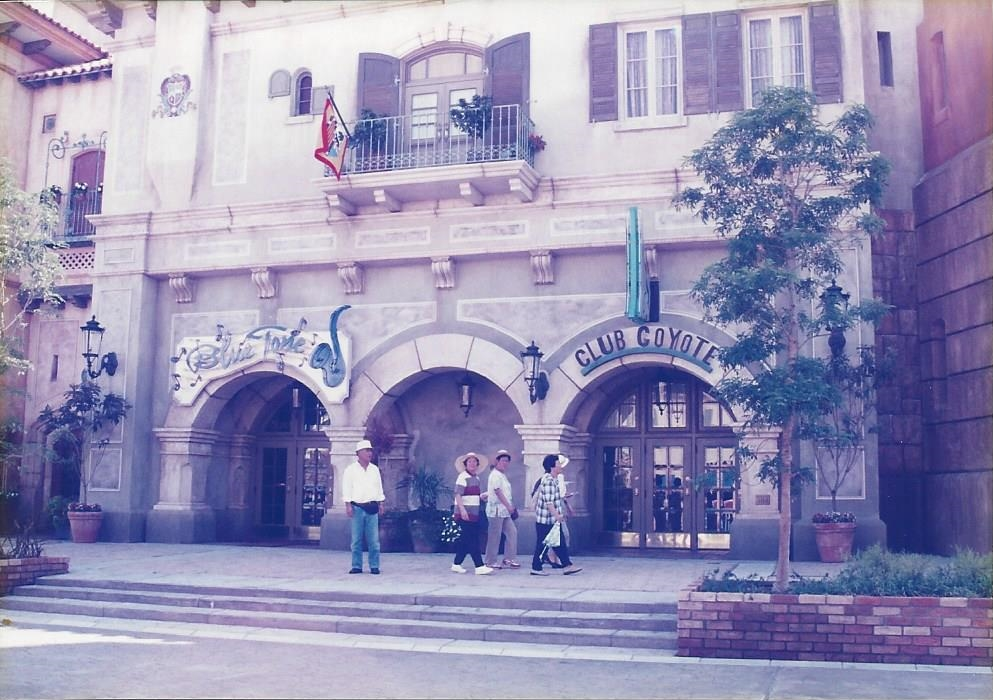 Entry to Blue Tone & Club Coyote, located in the Italian-themed area of Porto Europa, Wakayama Marina City